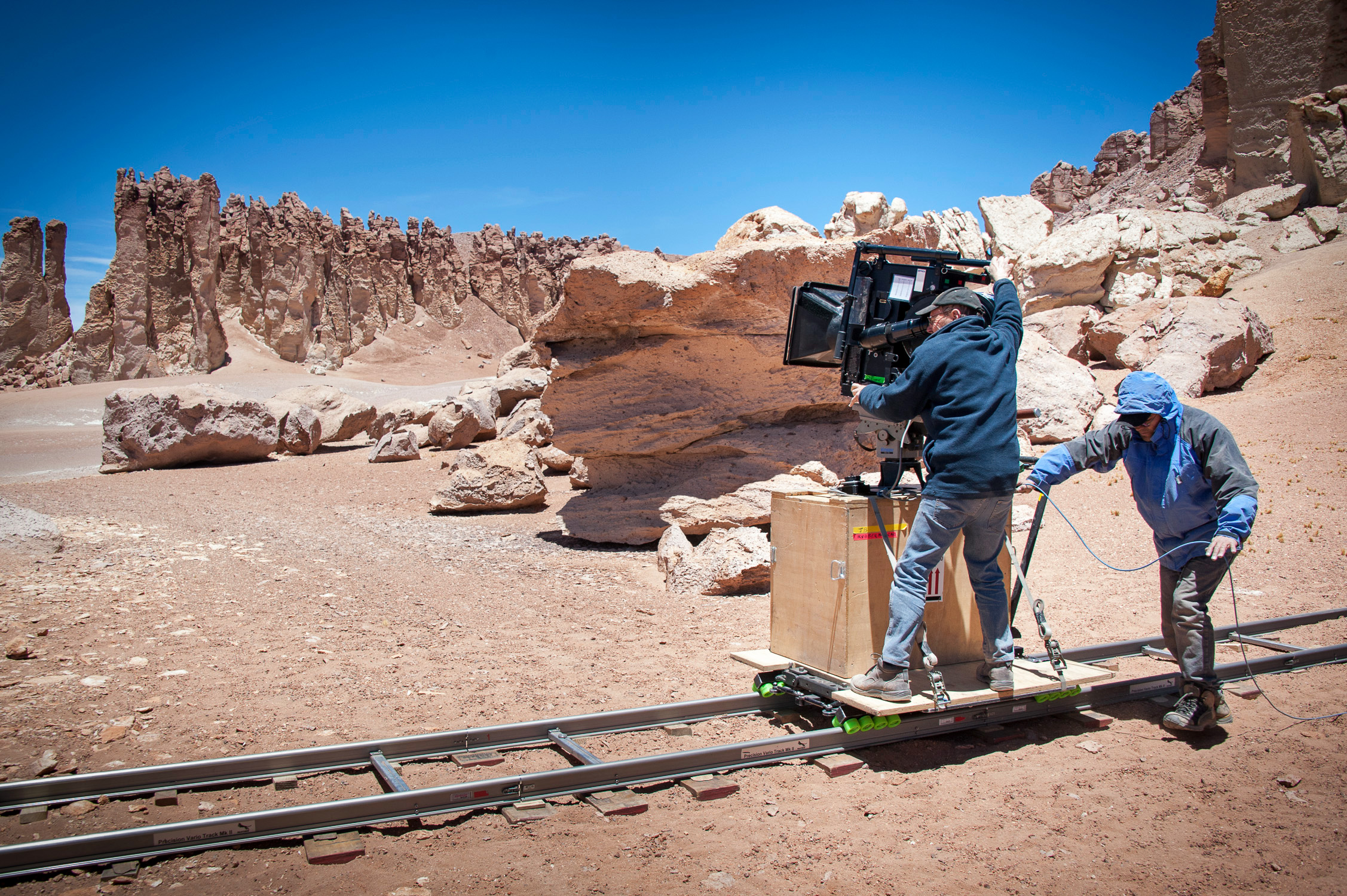 Malcolm Ludgate, Director of Photography for Hidden Universe, filming a motion sequence in Chile's Atacama Desert. Hidden Universe was released in IMAX® theatres and giant-screen cinemas around the globe and produced by the Australian production company December Media in association with Film Victoria, Swinburne University of Technology, MacGillivray Freeman Films and ESO.